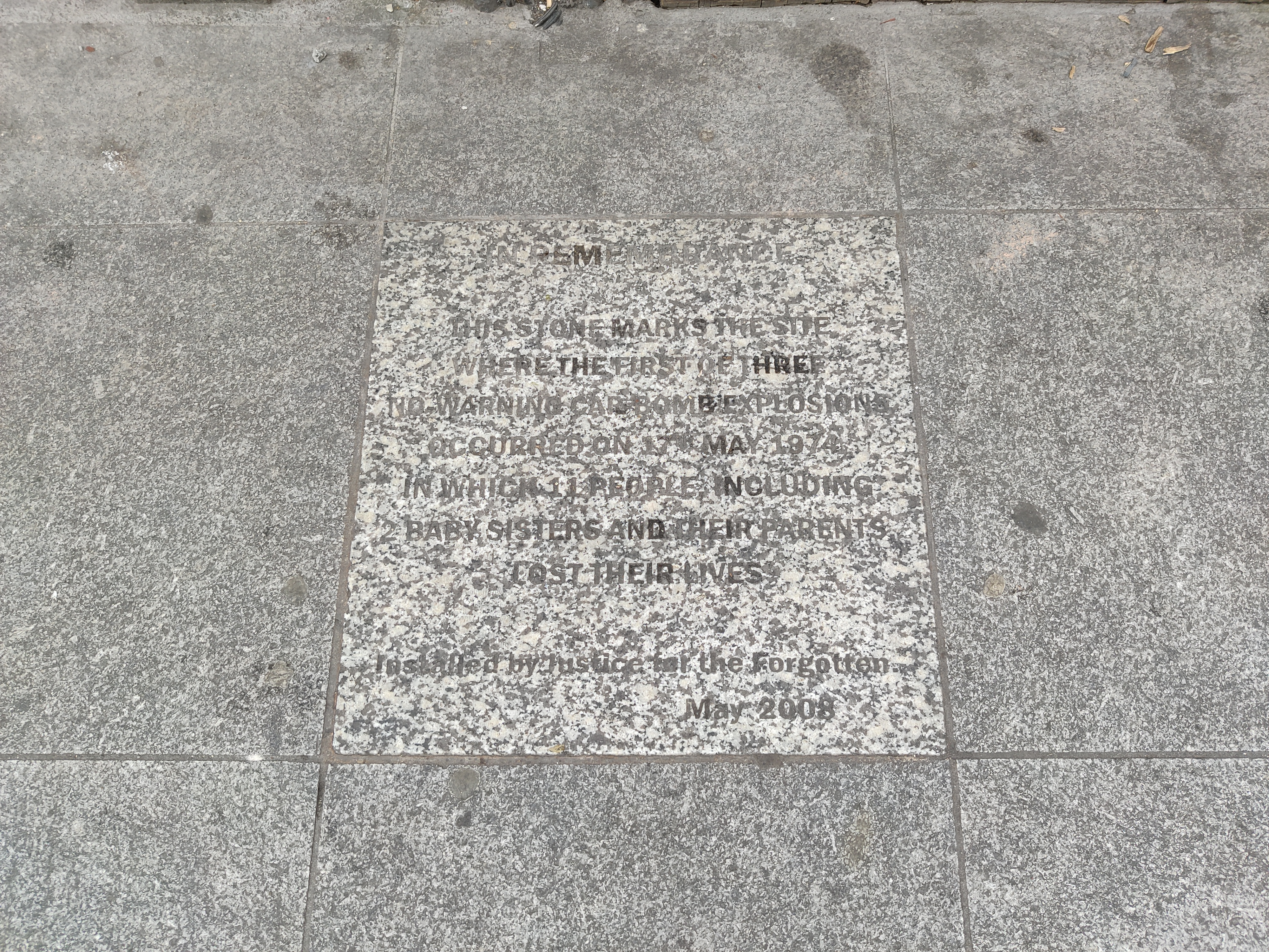 Memorial to Dublin and Monaghan bombings in Parnell St, Dublin Ireland.